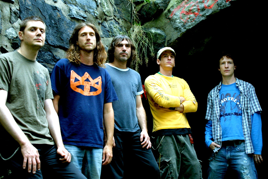 band photo of GrimSkunk